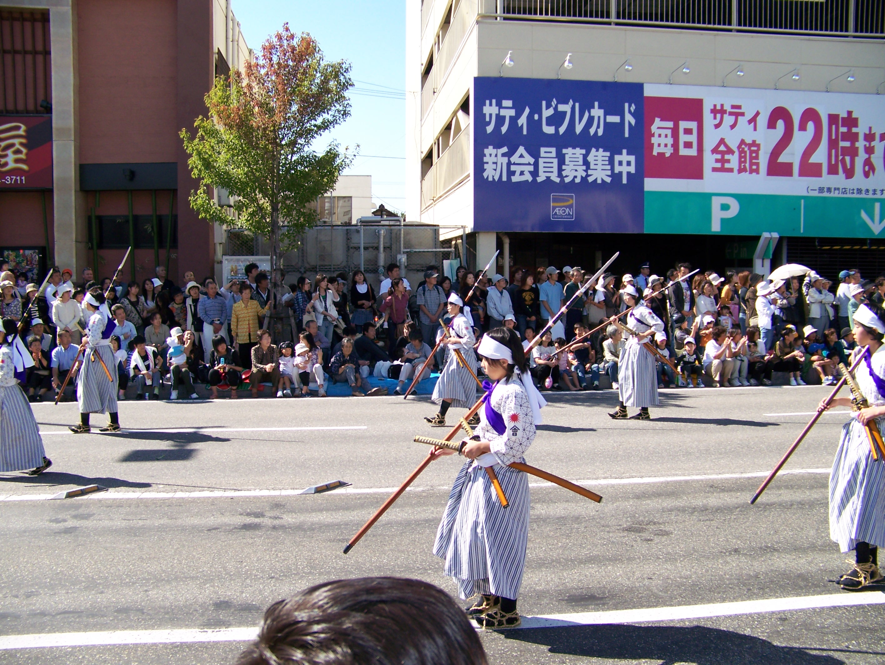 Female warriors in the 2006 Aizu Clan Parade in Aizu-Wakamatsu, Fukushima Prefecture, Japan. Photo by uploader. Taken 27 September 2006.